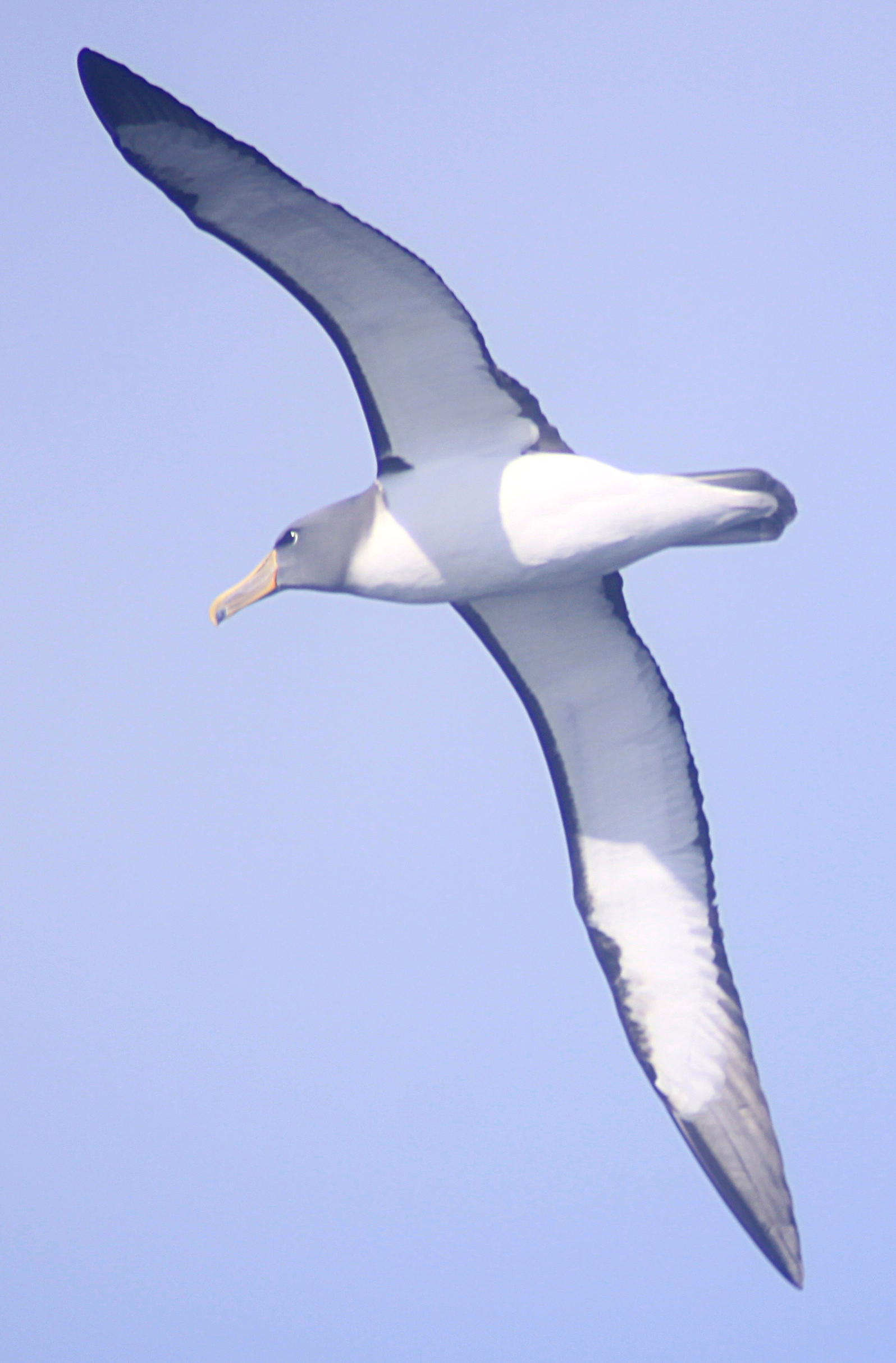 Chatham Albatross (Thalassarche eremita). Photographed off Eaglehawk Neck, Tasmania on pelagic birding trip, 3rd of September, 2011